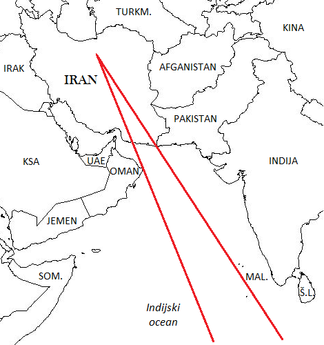 Launch Corridor of the Imam Khomeini Space Center (Serbo-Croatian description) Srpskohrvatski / српскохрватски: Lansirni koridori Svemirskog centra Imam Homeini